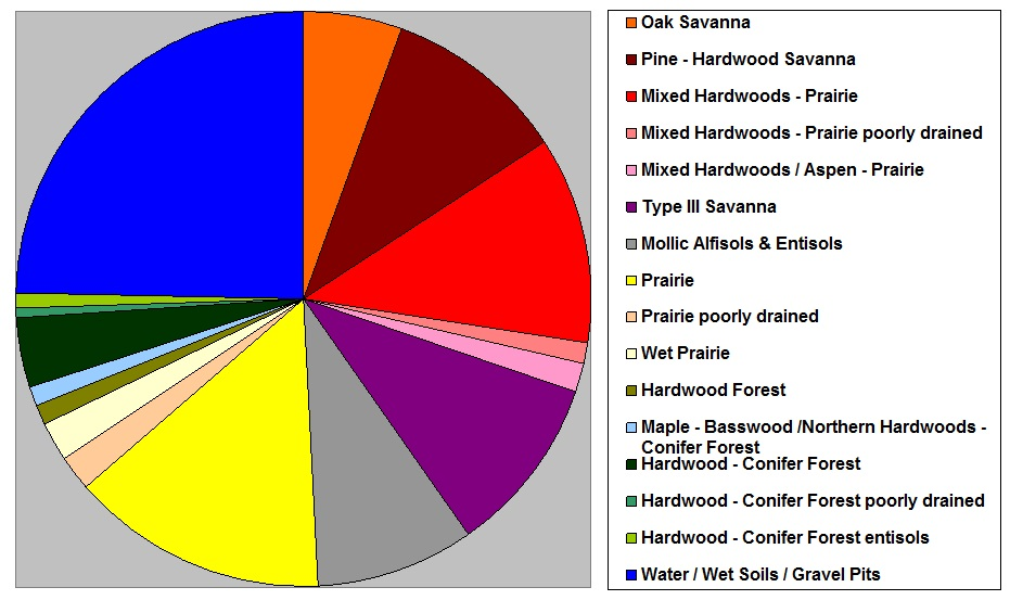 Pie chart shows native vegetation based on soils for Otter Tail County Minnesota. Type III savannas are forest soils that have no mollic epipedon but have other qualities that help the soil support native grasses.